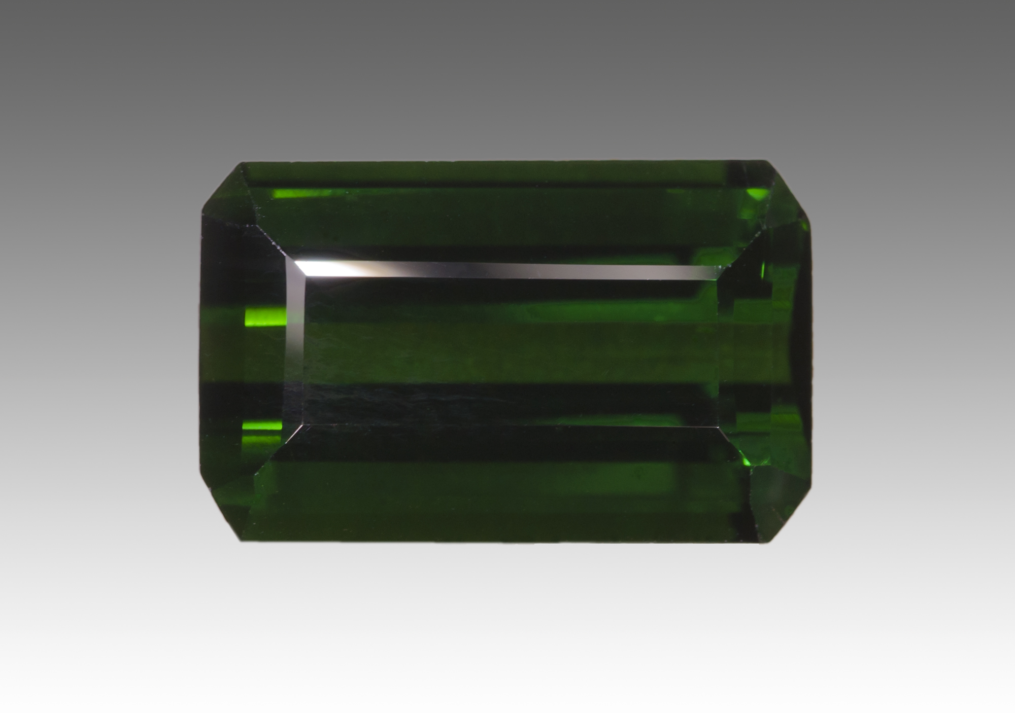 Verdelite - Cut Locality: Brasil Size:, 1.02 x 0.57 x 0.35 cm cm 8.5Cts